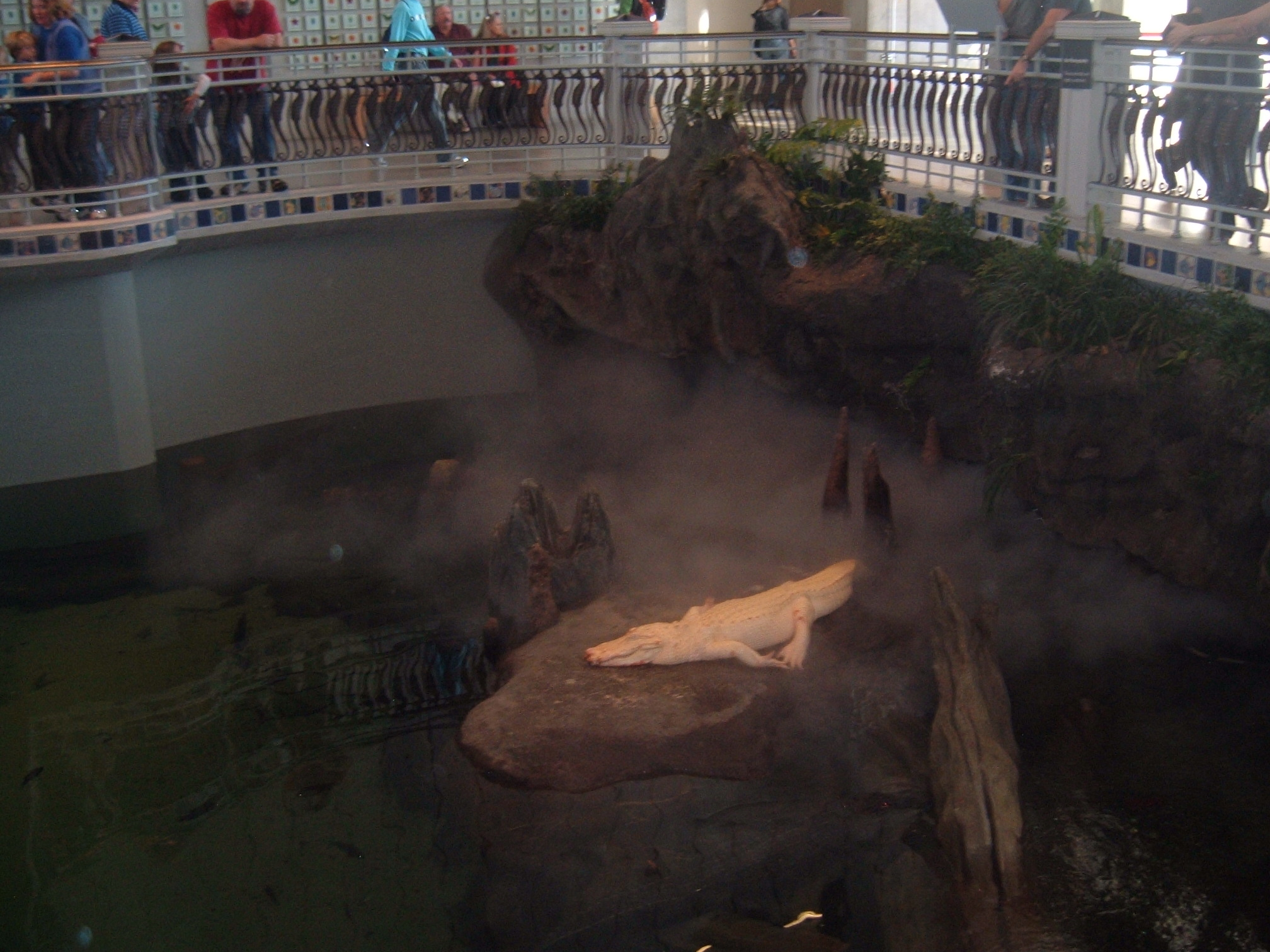 Albino Alligator in swamp exhibit in the main floor area of the California Academy of Science in San Francisco, CA